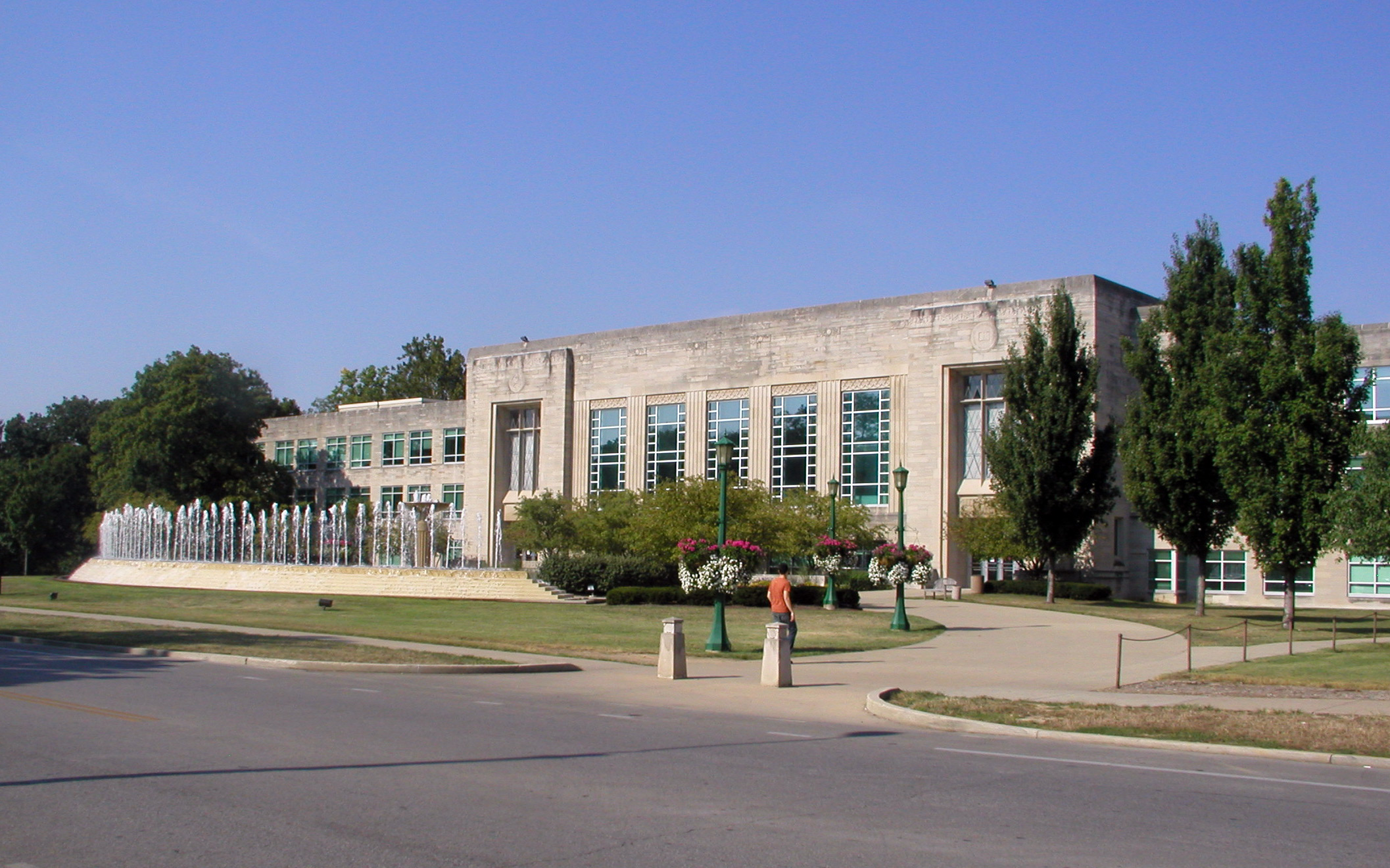 Jacobs School of Music on the campus of Indiana University Bloomington. The fountain at center left is representative of a conductor (the taller fountain in the background) and the orchestra (the various spouts foreground of the conductor fountain). Photo taken August, 2006 by User:Durin-en